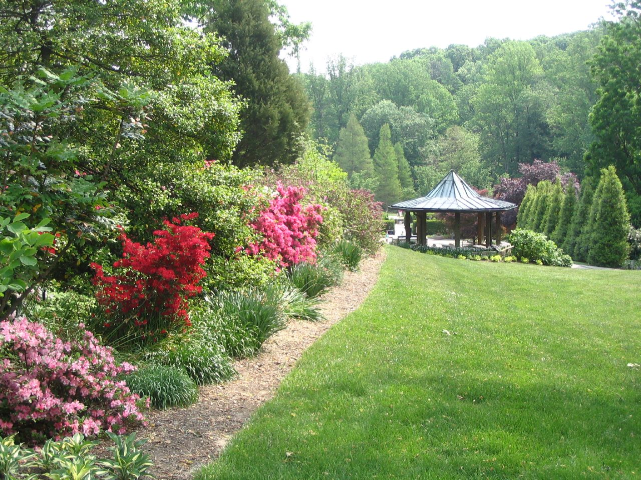 Brookside Garden 2007 004, Location: Wheaton (Maryland)